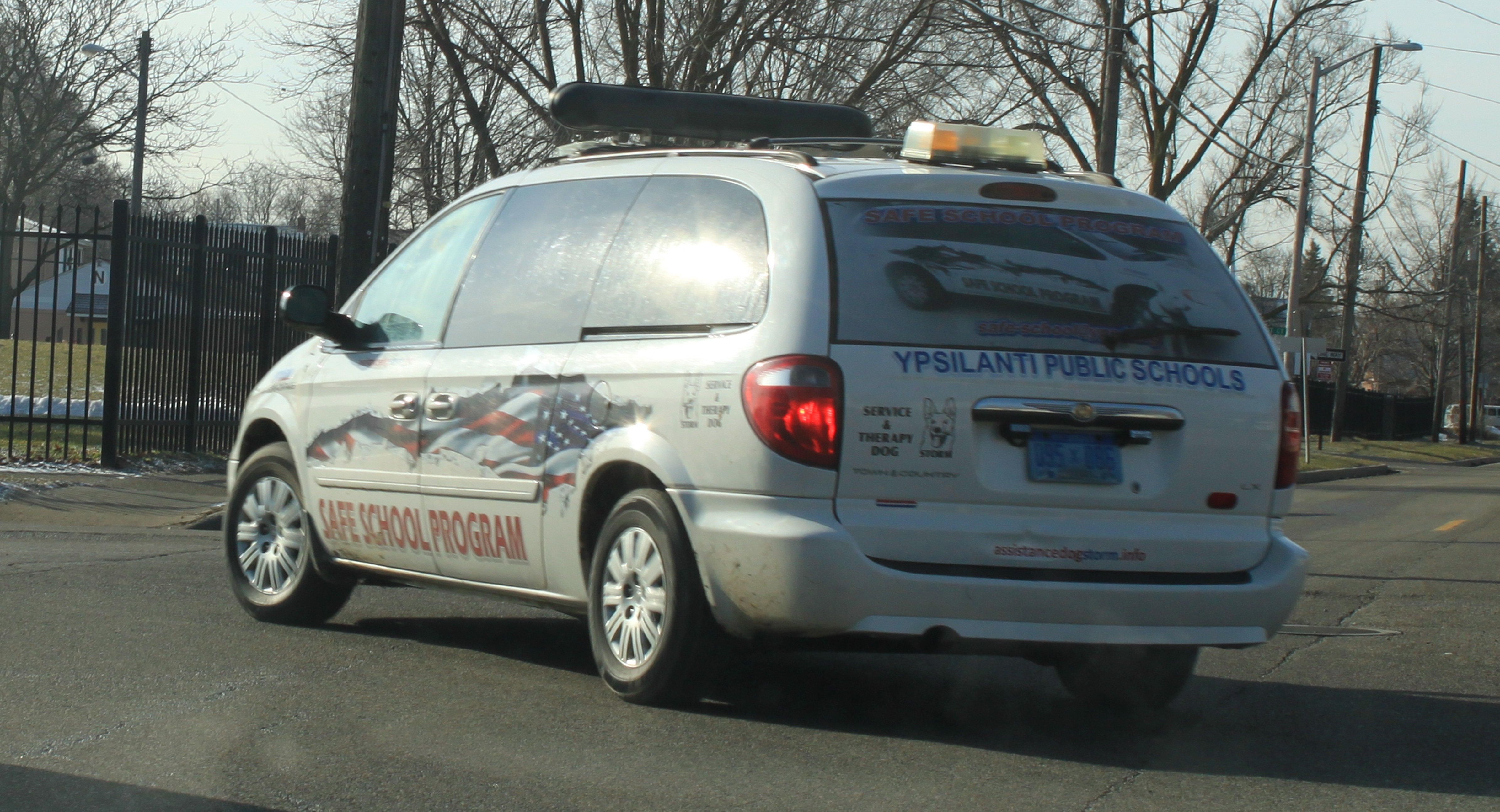 Ypsilanti Public Schools Safe Schools Program vehicle, Ypsilanti, Michigan. The Safe Schools program works to prevent drug and alcohol abuse.